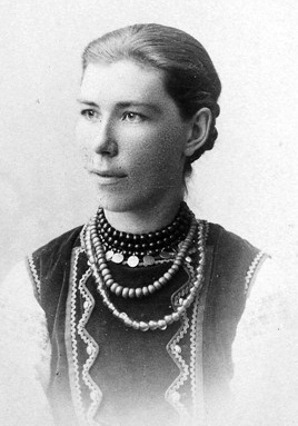 Марія Грінченко